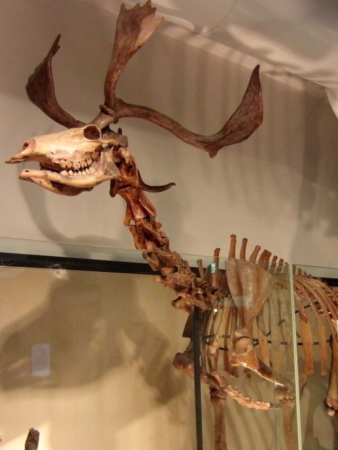 Skeleton of Yabe's Giant Deer (Sinomegaceros yabei). Exhibit in the National Museum of Nature and Science, Tokyo, Japan.